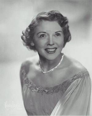 Photo of Fran Allison from Kukla, Fran and Ollie.